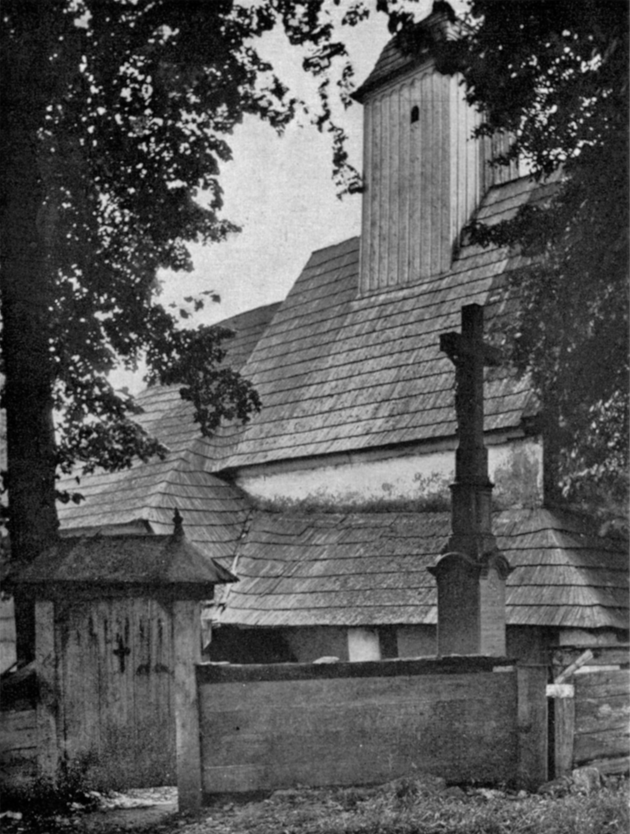 Závišice (Nový Jičín). St. Catherine's Chapel of Ease from the N. W.